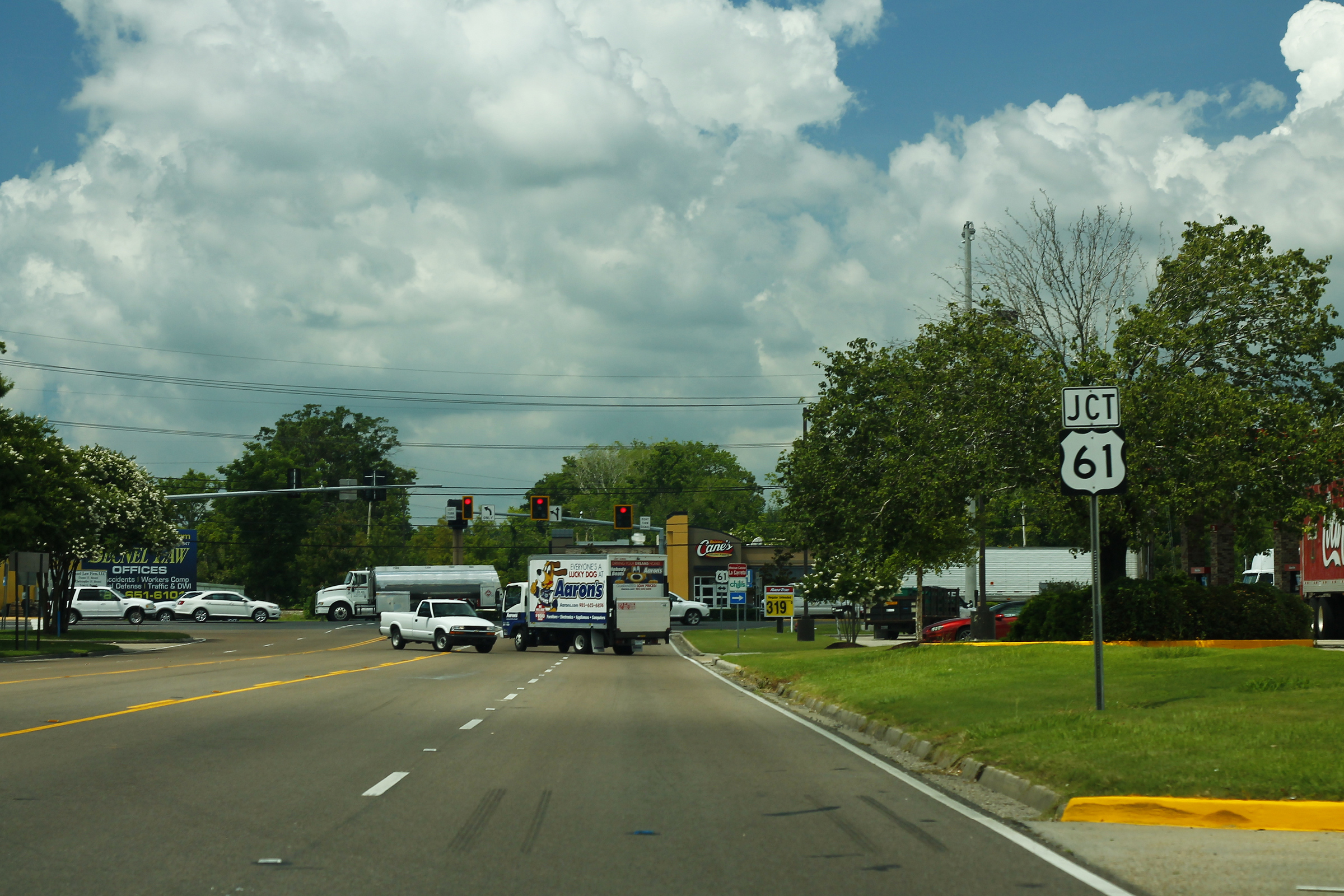 US51sRoadEnd-JctUS61sign